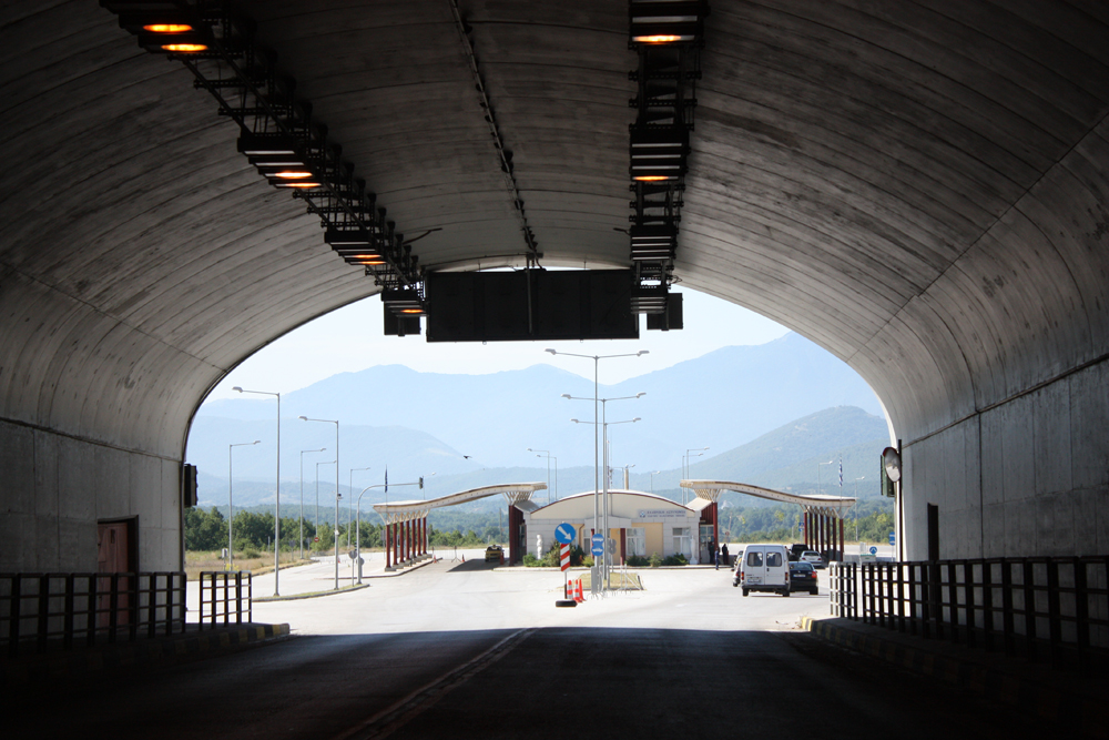 Into Greece from Bulgaria through the Border check Ilinden-Exochi